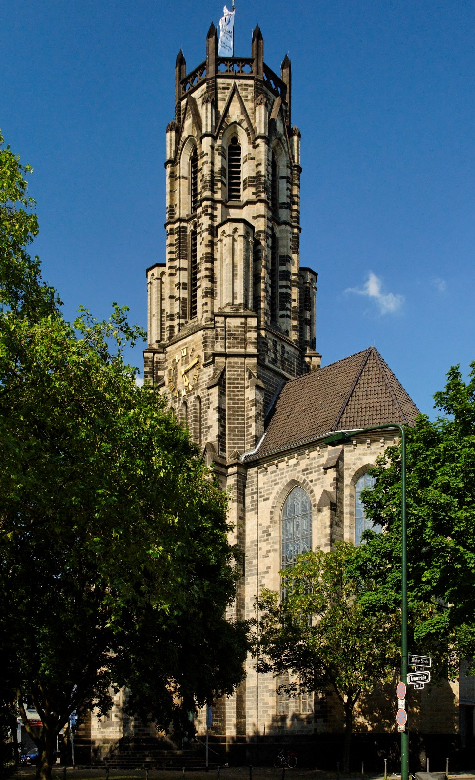 Holy Trinity Church in Düsseldorf-Derendorf, Germany